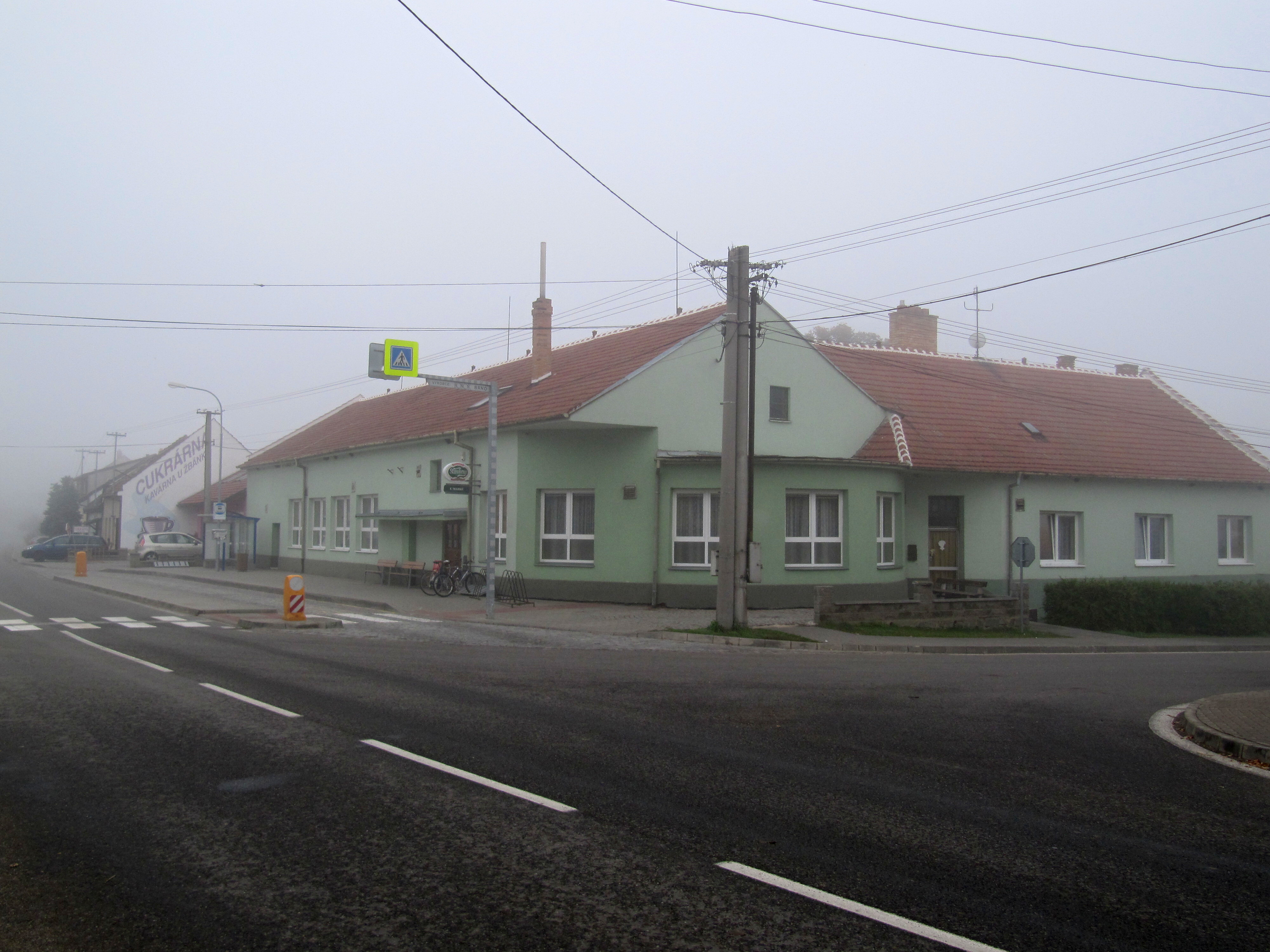 Otnice in Vyškov District, Czech Republic. Pub on the main crossroads.